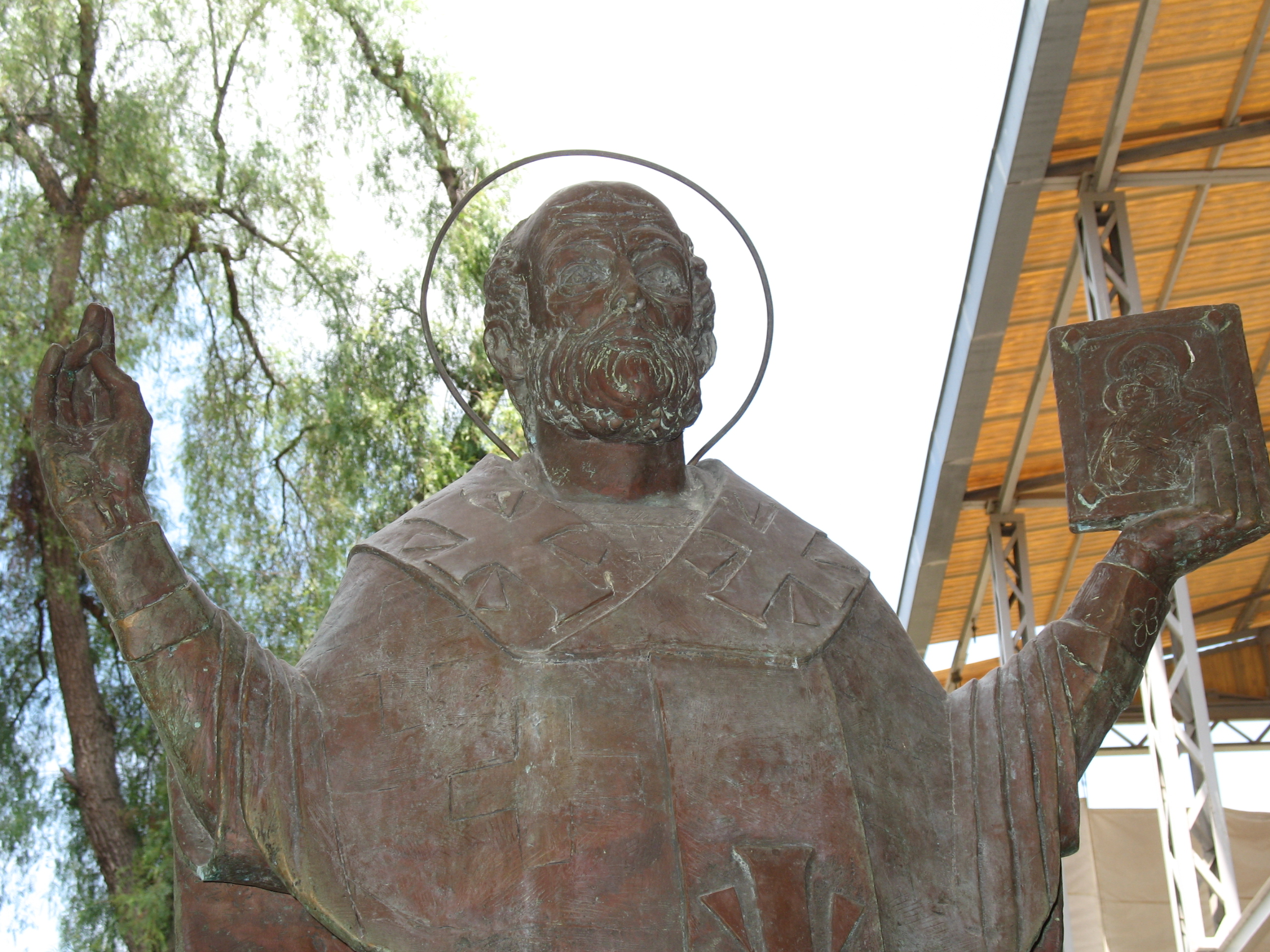 St. Nickolas, Myra, Turkey